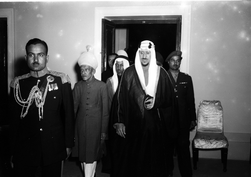 Nizam VII of Hyderabad, Mir Osman Ali khan (the then Rajpramukh/Governor) of Hyderabad State with King Saud of Saudi Arabia